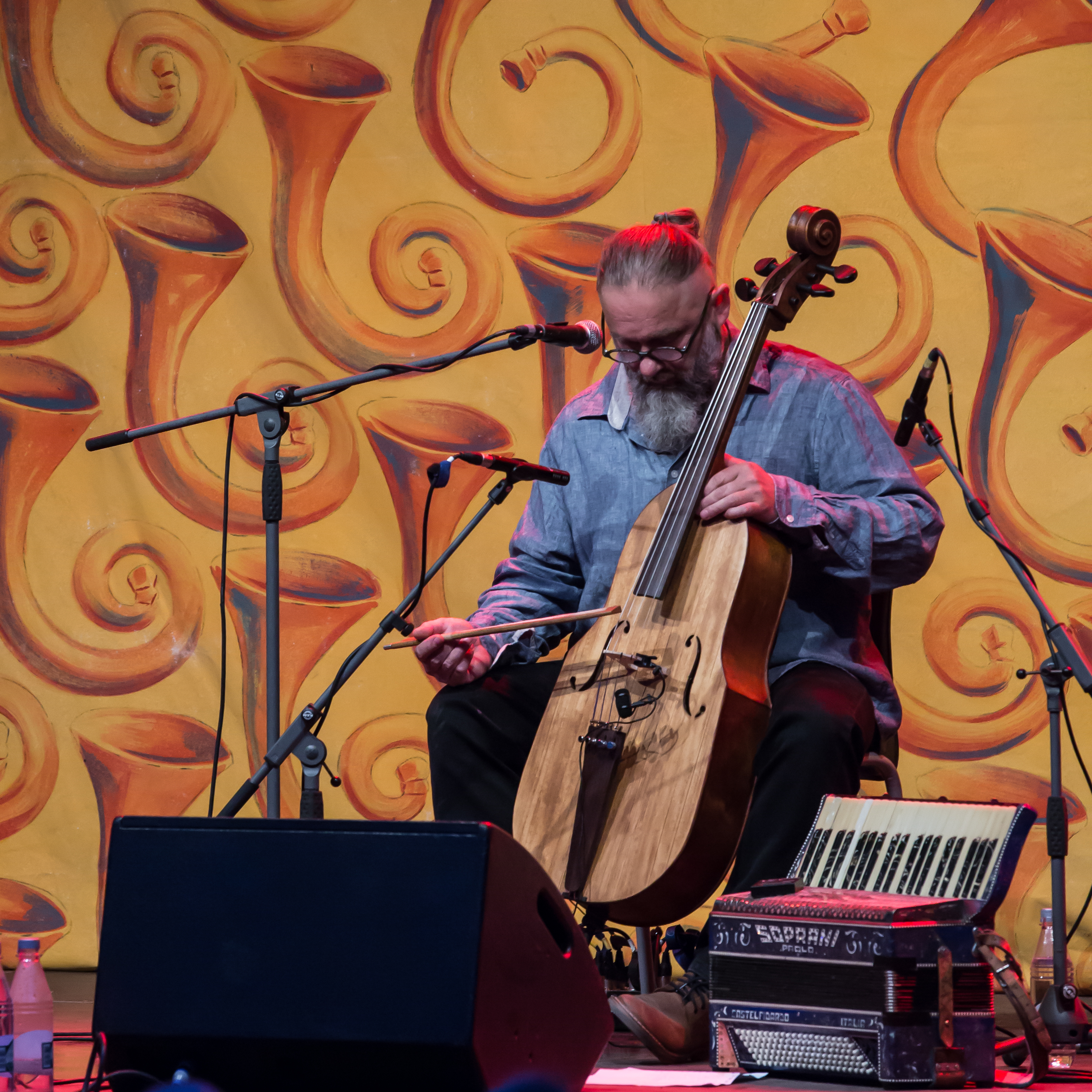 Polish folk band Kapela Maliszów at the Rudolstadt Festival 2016